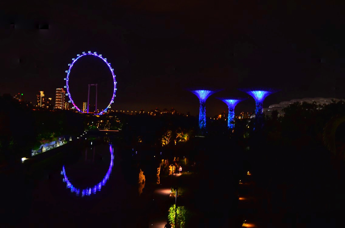 Singapore Flyer and Gardens by the bay at night, Singapore